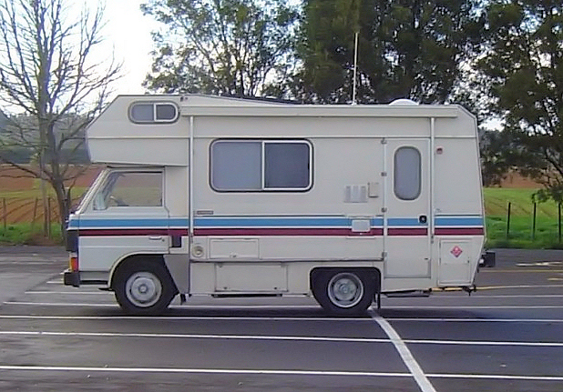 A campervan, or recreational vehicle, custom-built on a light truck chassis. Photographed on a motorway service parking lot near Pukekohe, New Zealand.